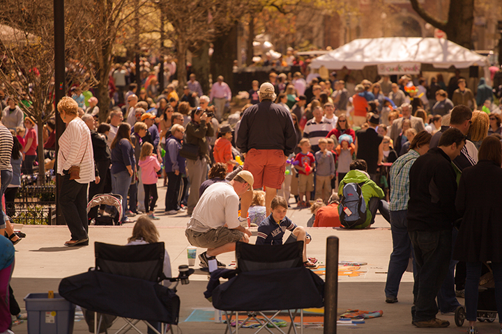 Chalk Walk Festivities